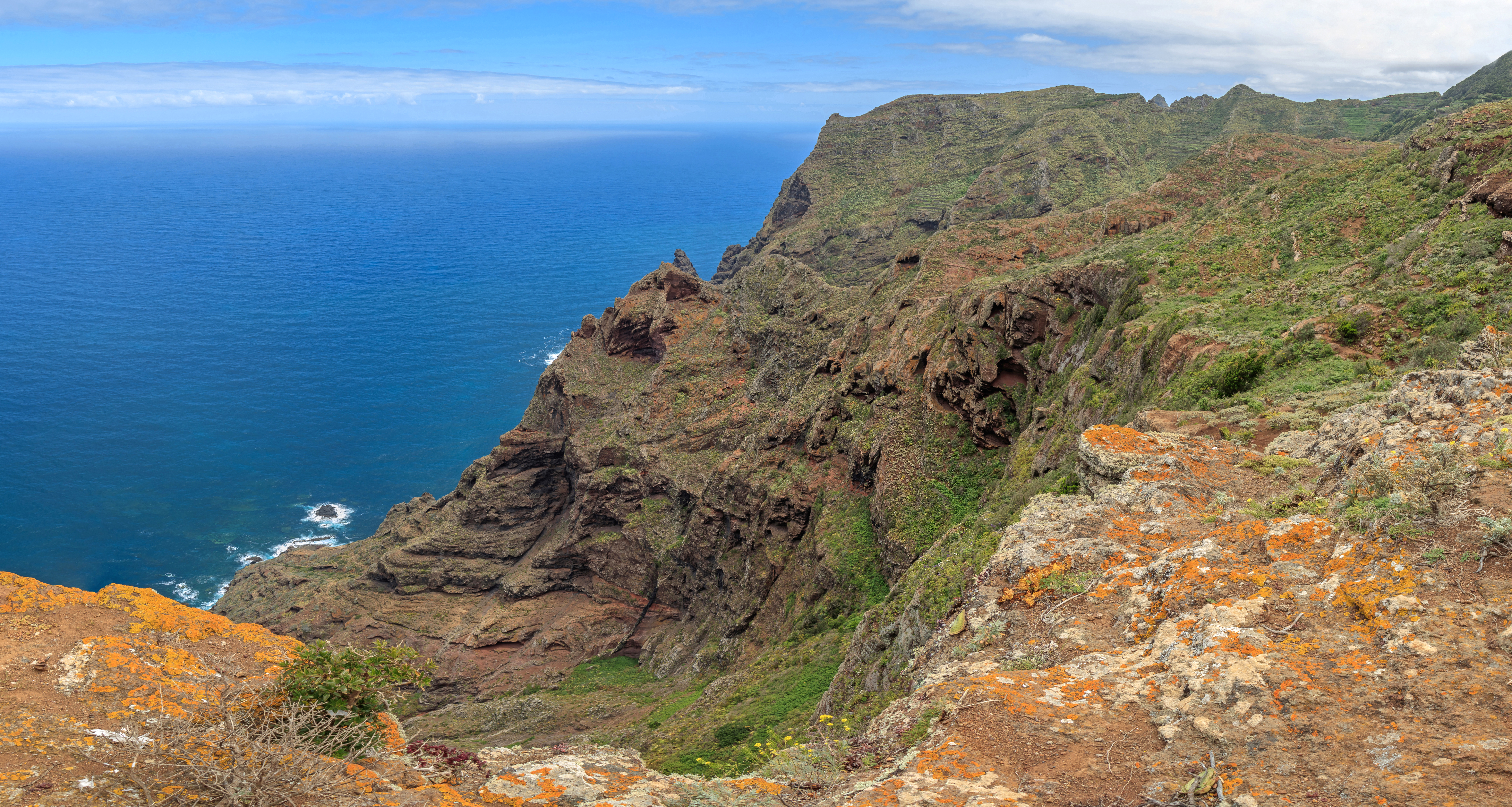 Coast at Chinamada, Tenerife, Canary Islands, Spain.